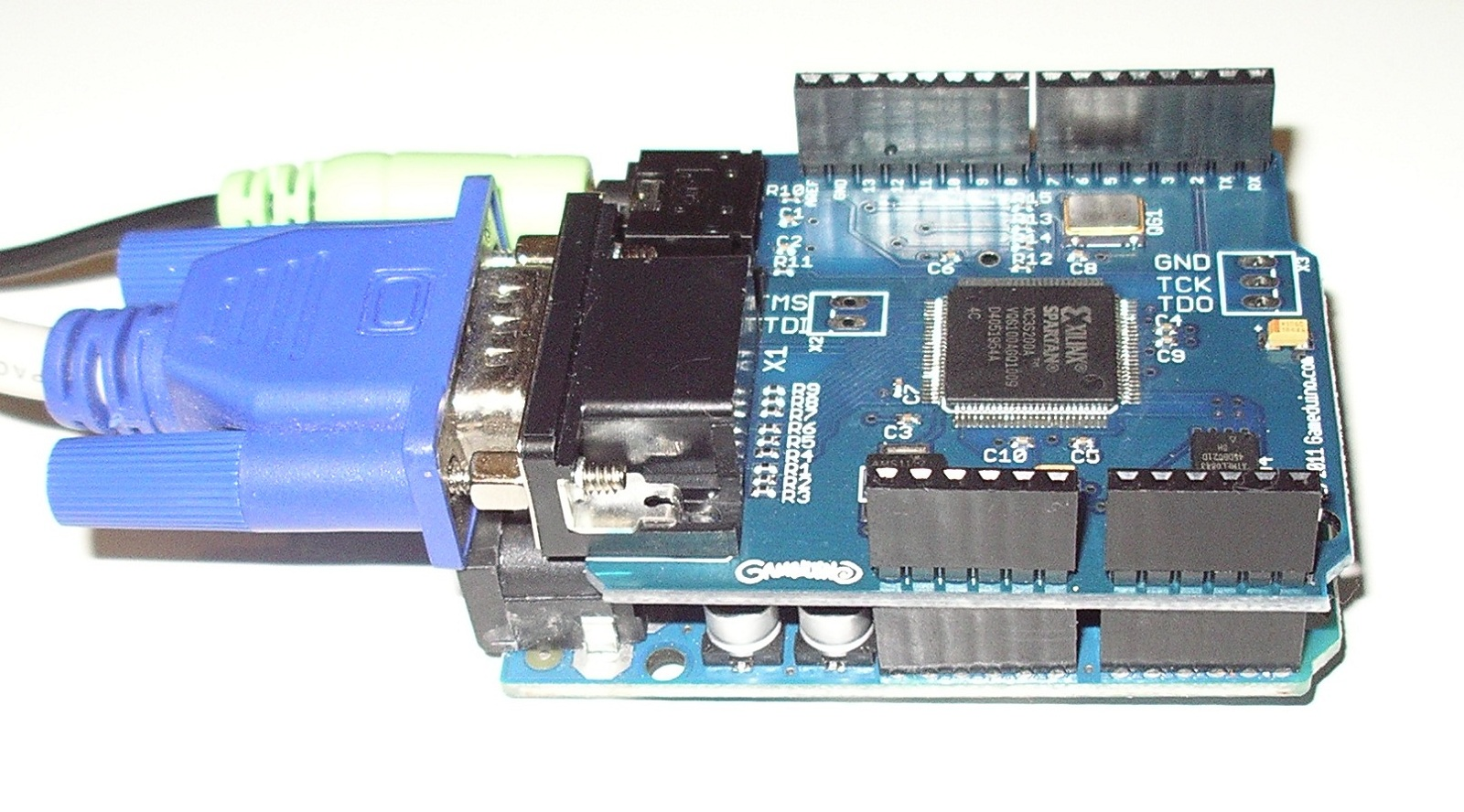 A Gameduino stacked onto an Arduino Uno